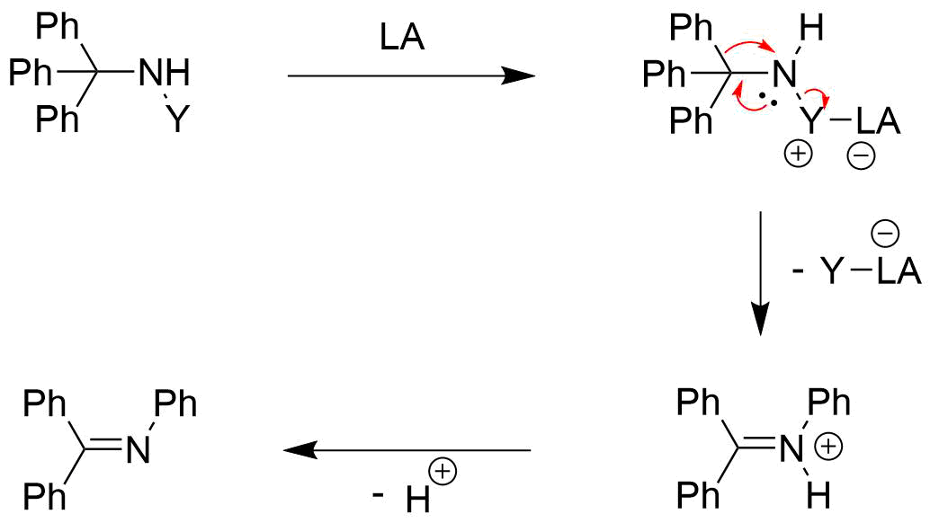 General mechanism for the Lewis acid mediated Stieglitz rearrangement